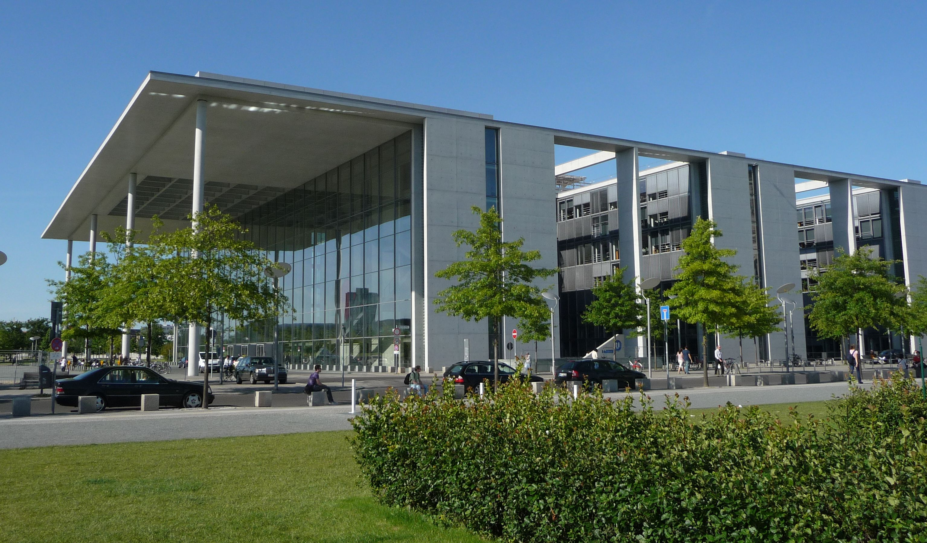 Berlin